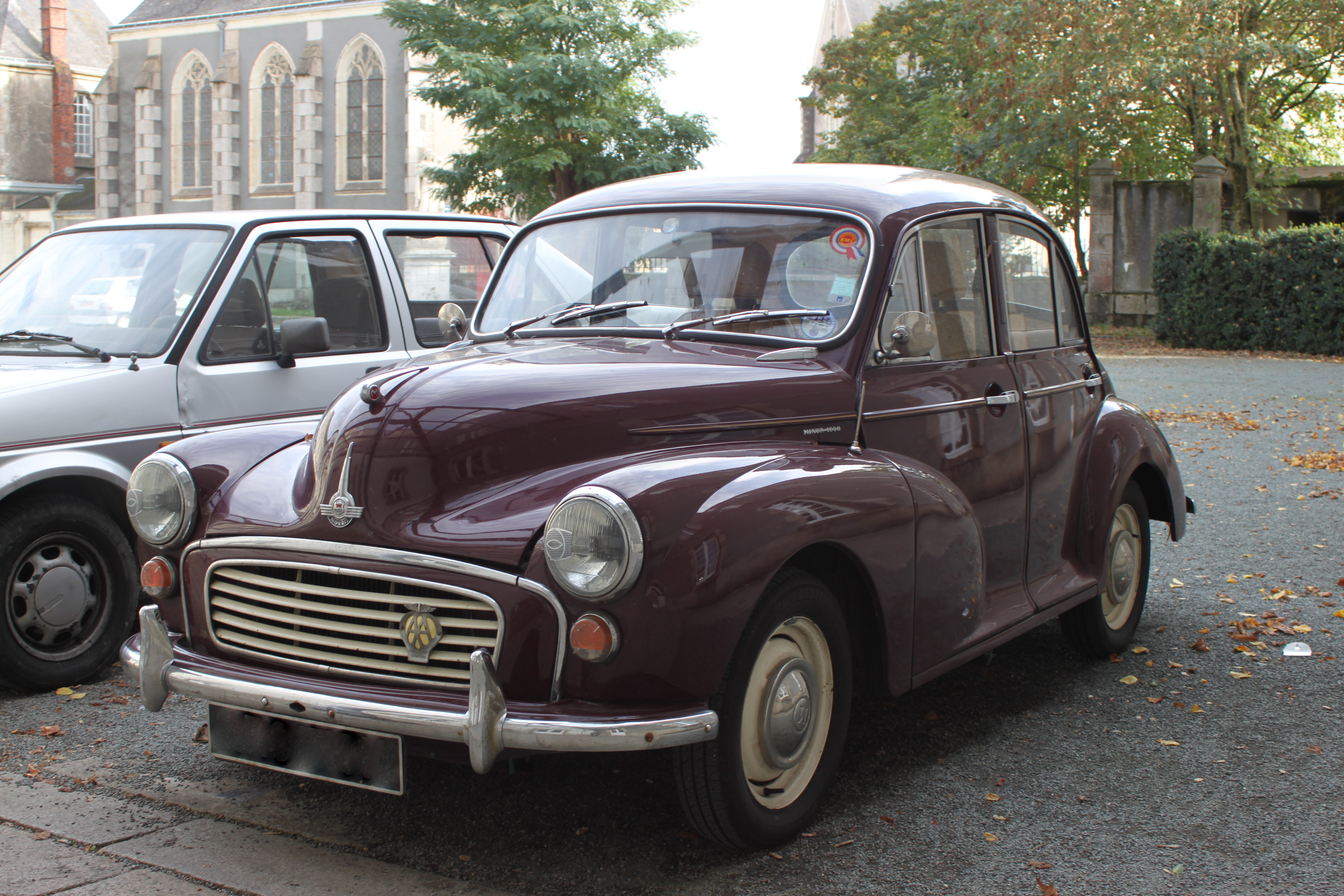 Morris Minor 1000.